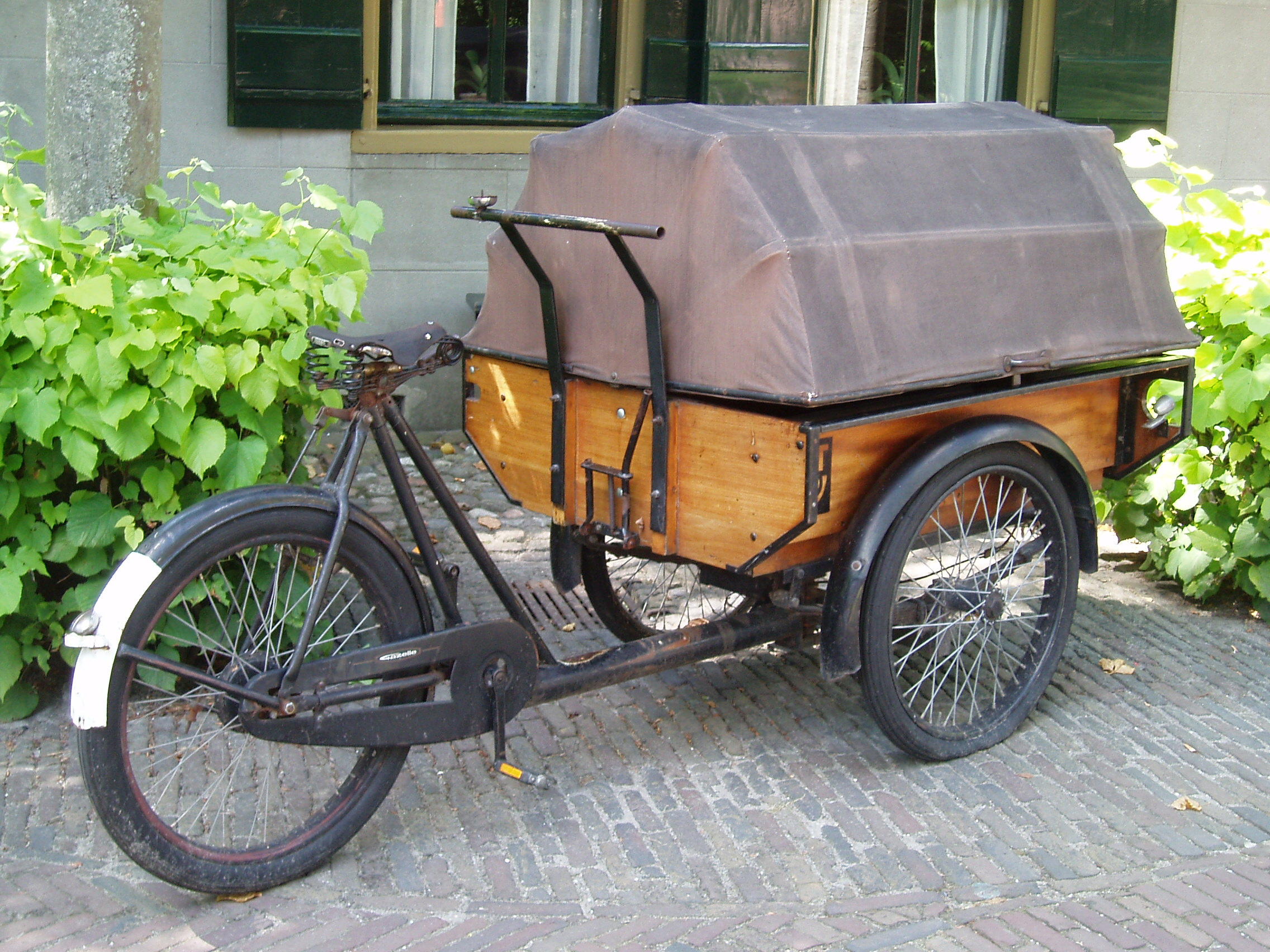 Tricycle in Zuiderzeemuseum in the Netherlands